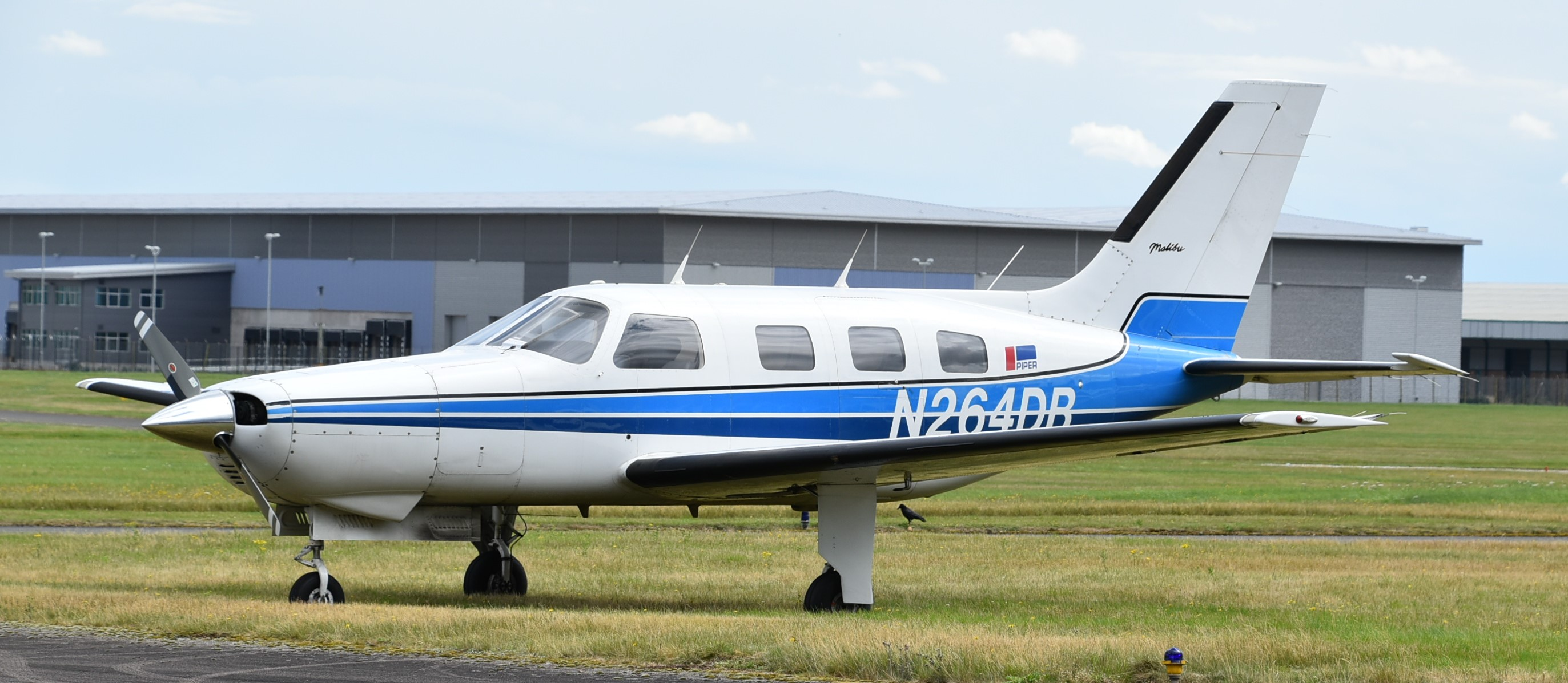 Piper PA-46 Malibu, registration N264DB, at Coventry Airport, IATA airport code CVT, 5 August 2017. This is the plane involved in the en:2019 Piper PA-46 Malibu crash.